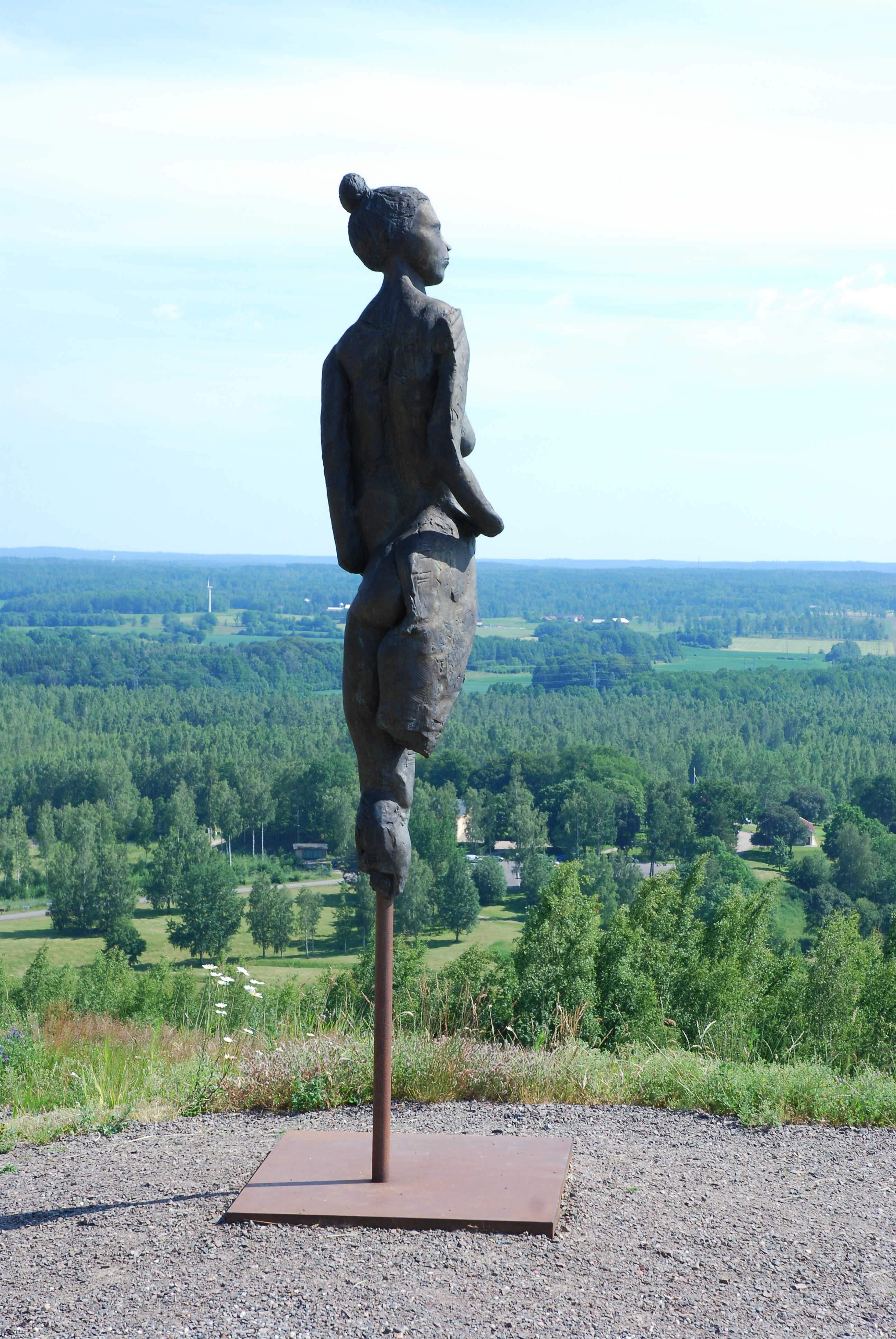 Richard Bixel´s Karyatid, Kvarntorp, Sweden